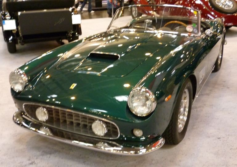 Ferrari 250 GT SWB California Spider